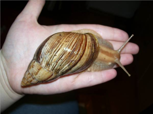 Achatina immaculata panthera